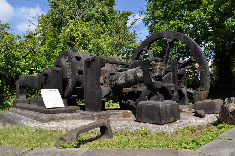 Abbeydale Industrial Hamlet - Tilt Hammer, near to Beauchief, Sheffield, Great Britain. See also SK3282 : Tilt Hammer Abbeydale